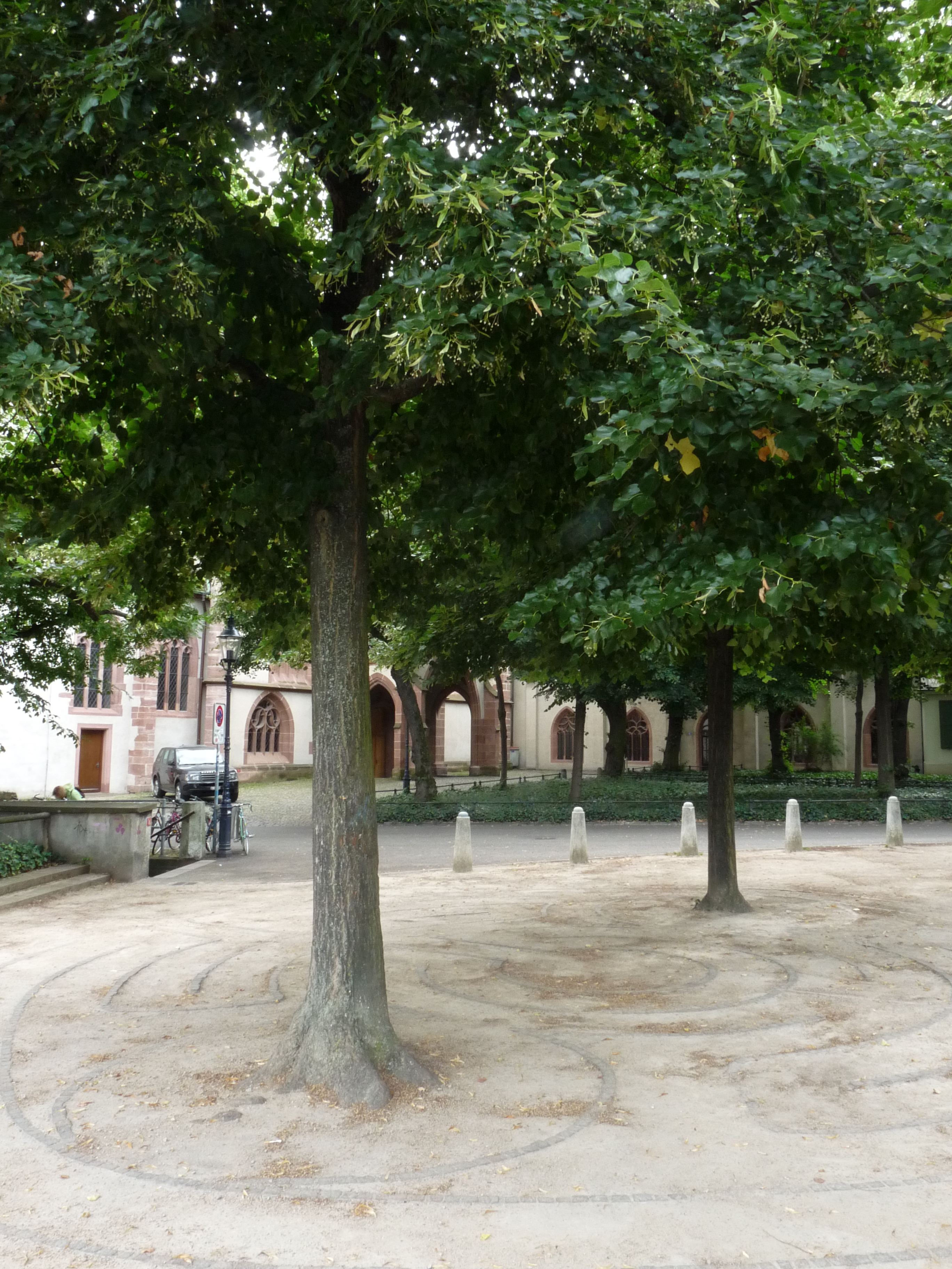 Basel (Switzerland), Leonhardskirche exterior with labyrinth in front